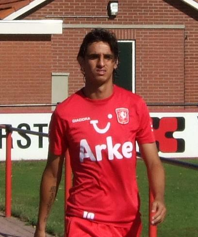 FC Twente player Bryan Ruiz